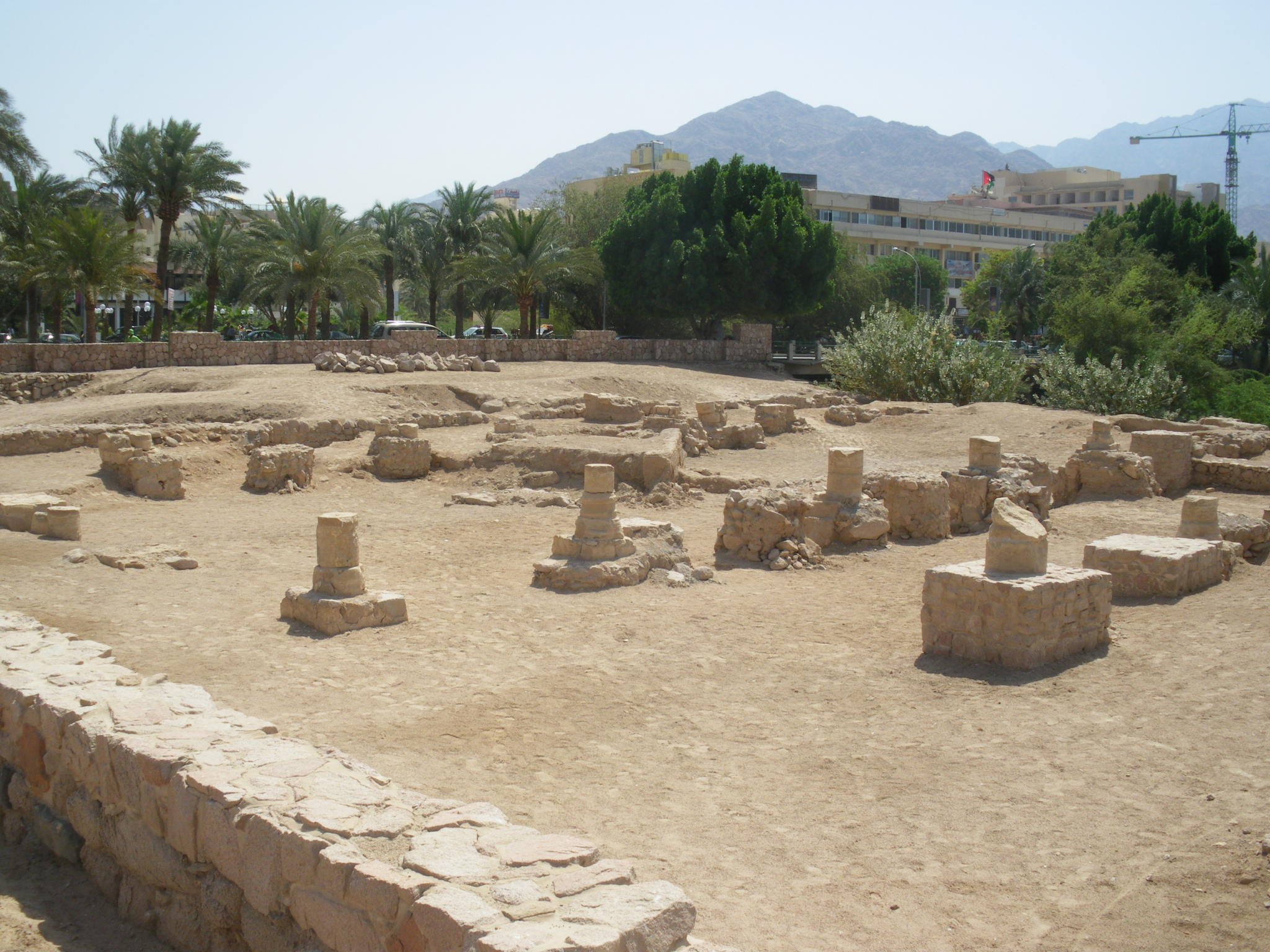 Ruins of Ayla in Aqaba, Jordan : the Mosque, built circa 650